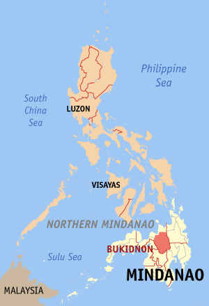 Map of the Philippines showing the location of Bukidnon